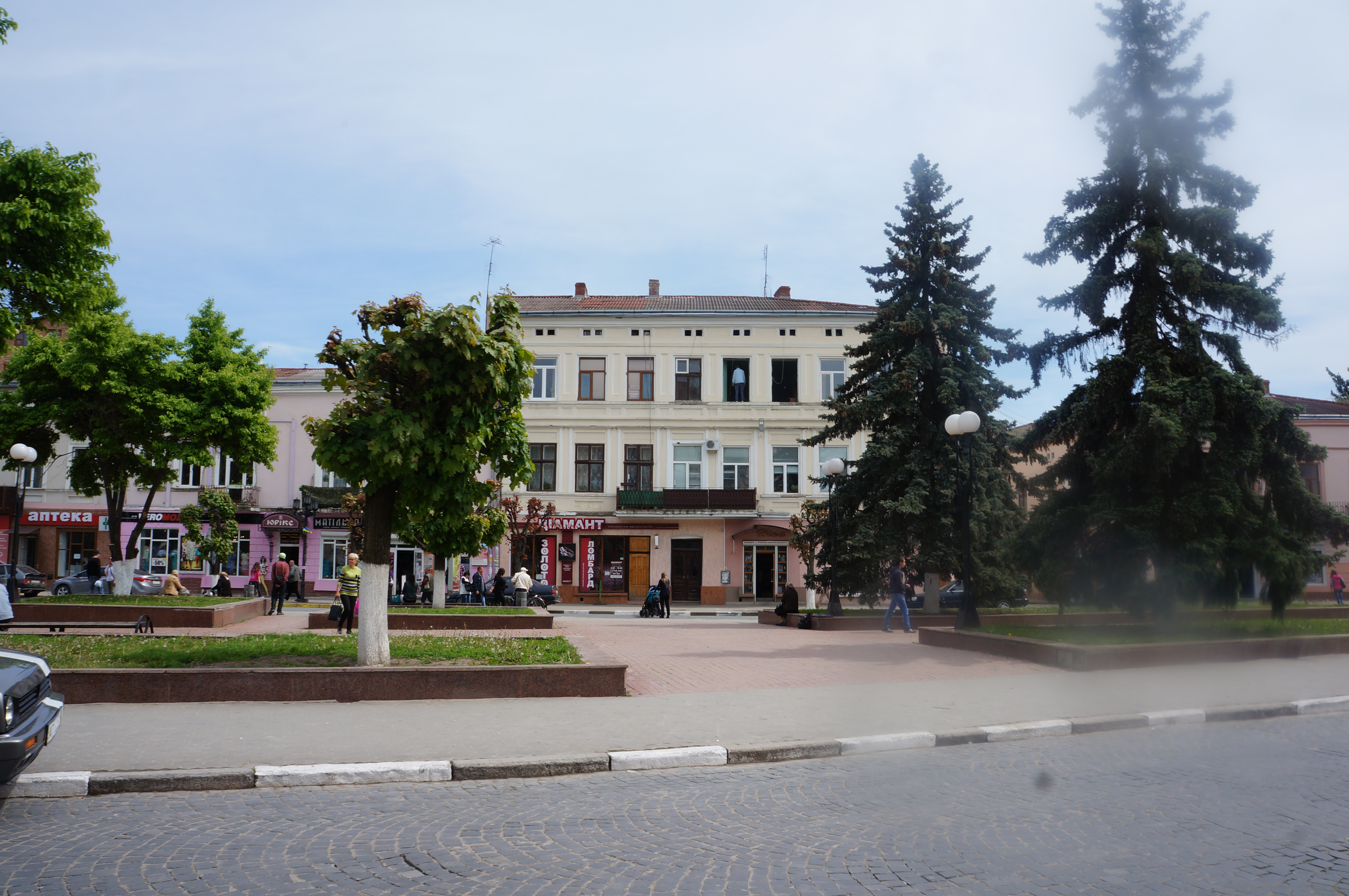 Market Square in Kolomyja